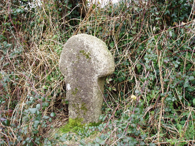 Old cross in hedge near Lesingey Lane.